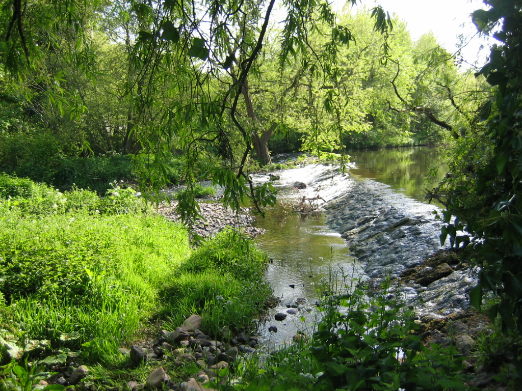 River Tyne, Preston Mill, East Lothian, Scotland